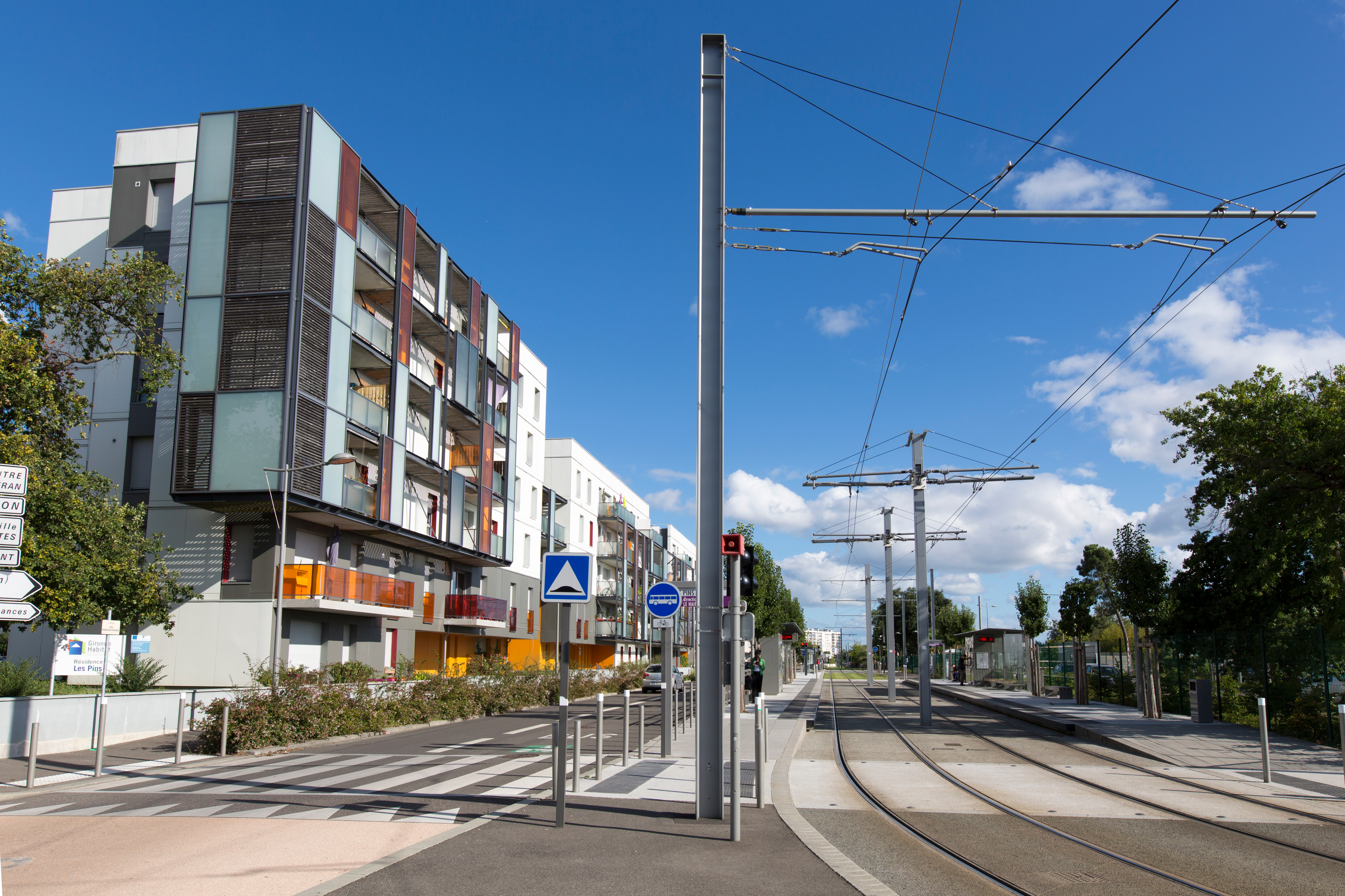 Station les Pins